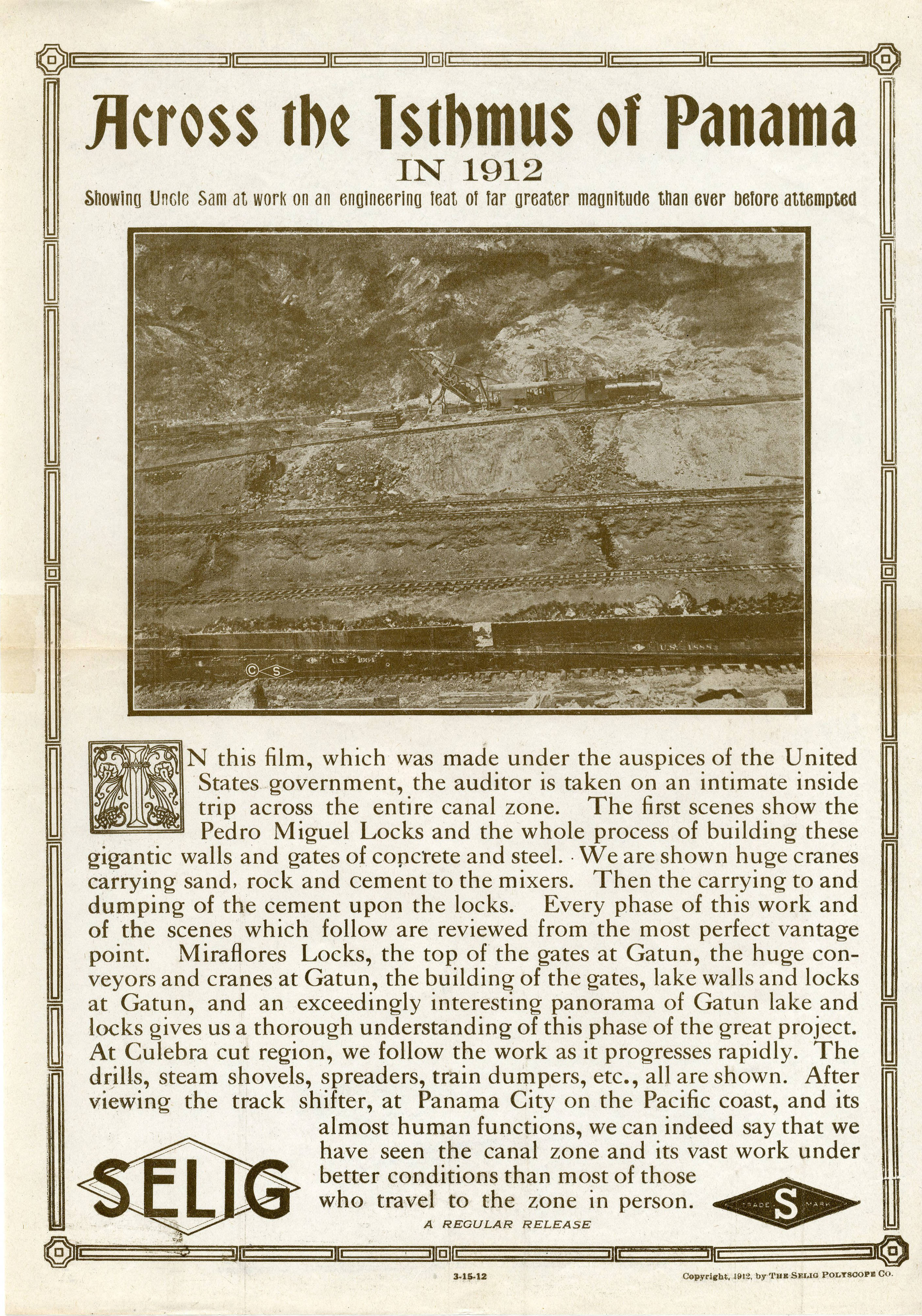 Release flier for ACROSS THE ISTHMUS OF PANAMA IN 1912, 1912